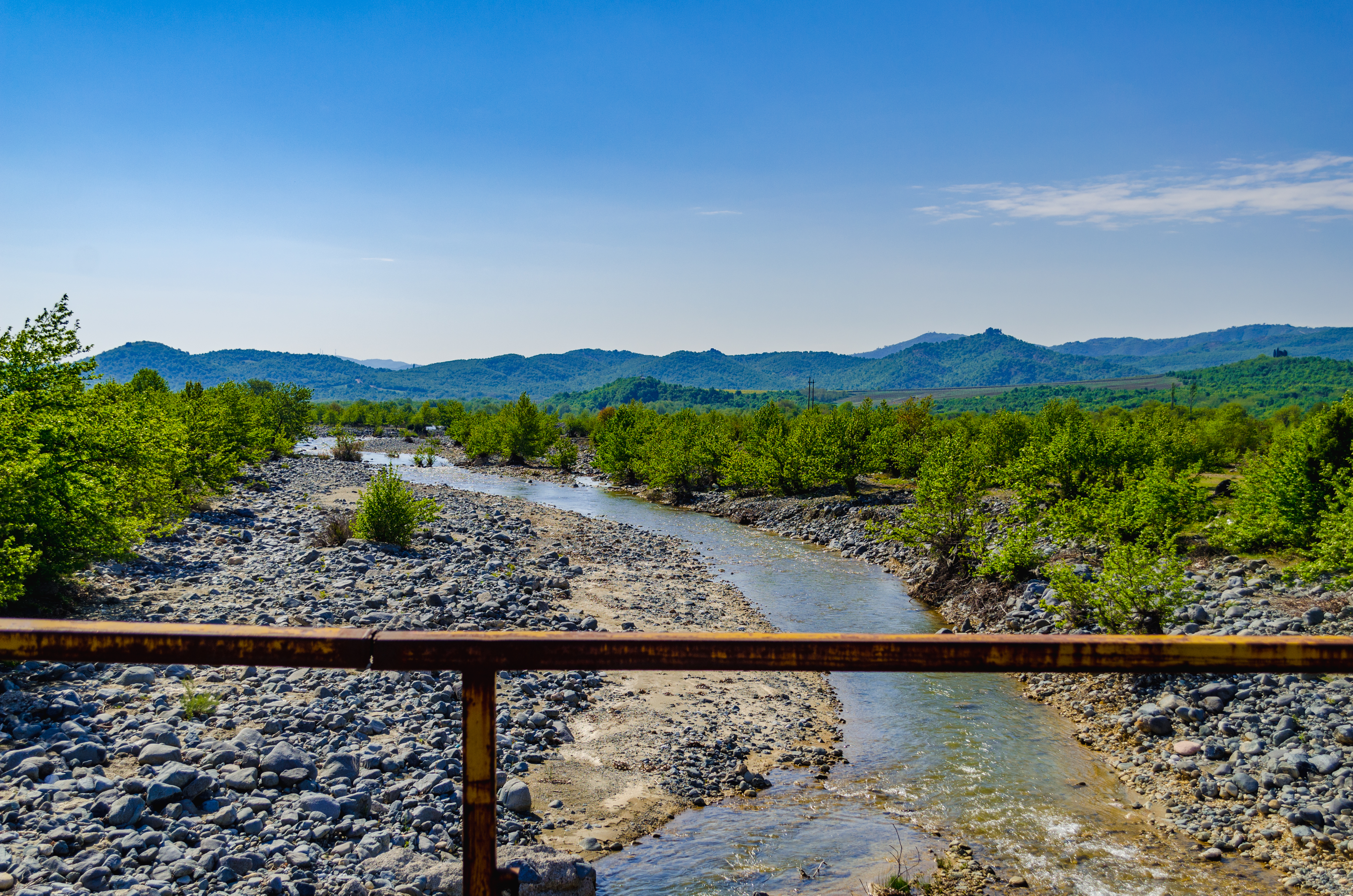 River Konska, depicted on the bridge near the entry of the village Moin